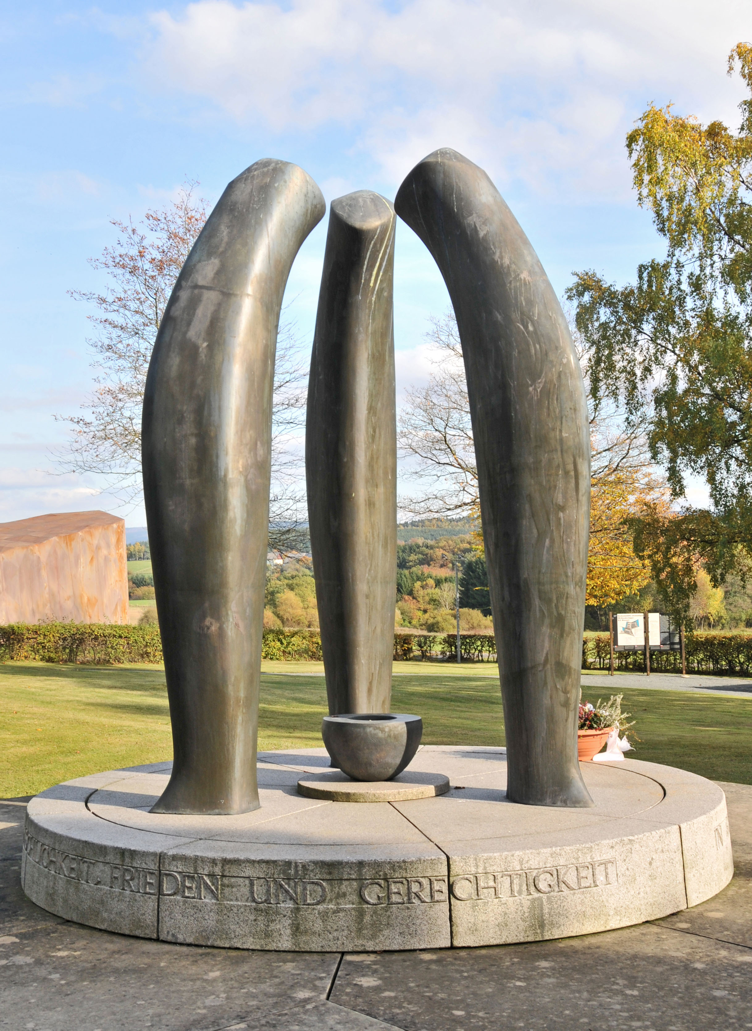 Bronze by Lucien Wercollier (1908-2002) at the Memorial of the Worl War II concentration camp at Hinzert, Germany. Uploaded with the espressive permission of the family members of the artist.